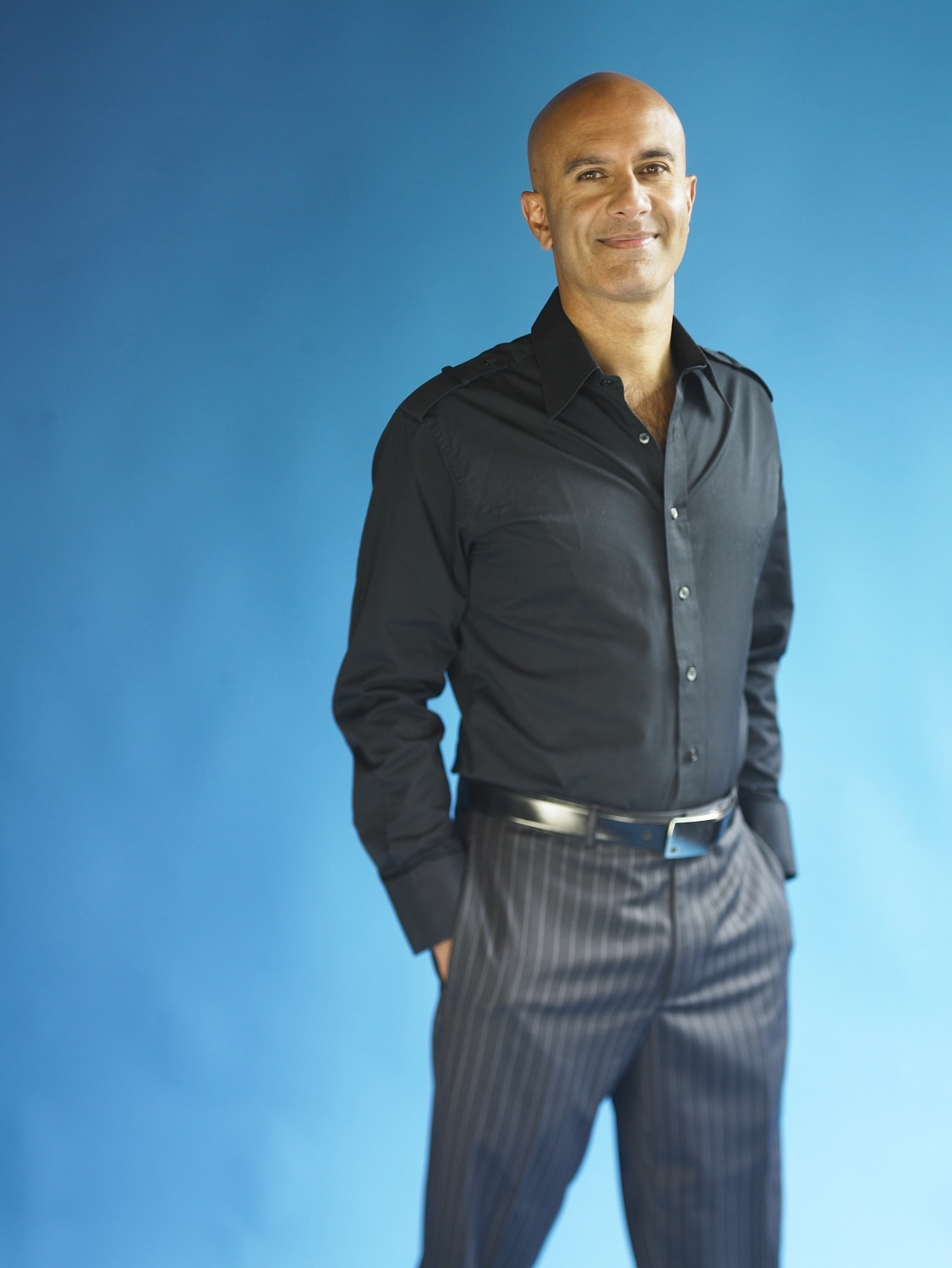 Picture of Robin Sharma